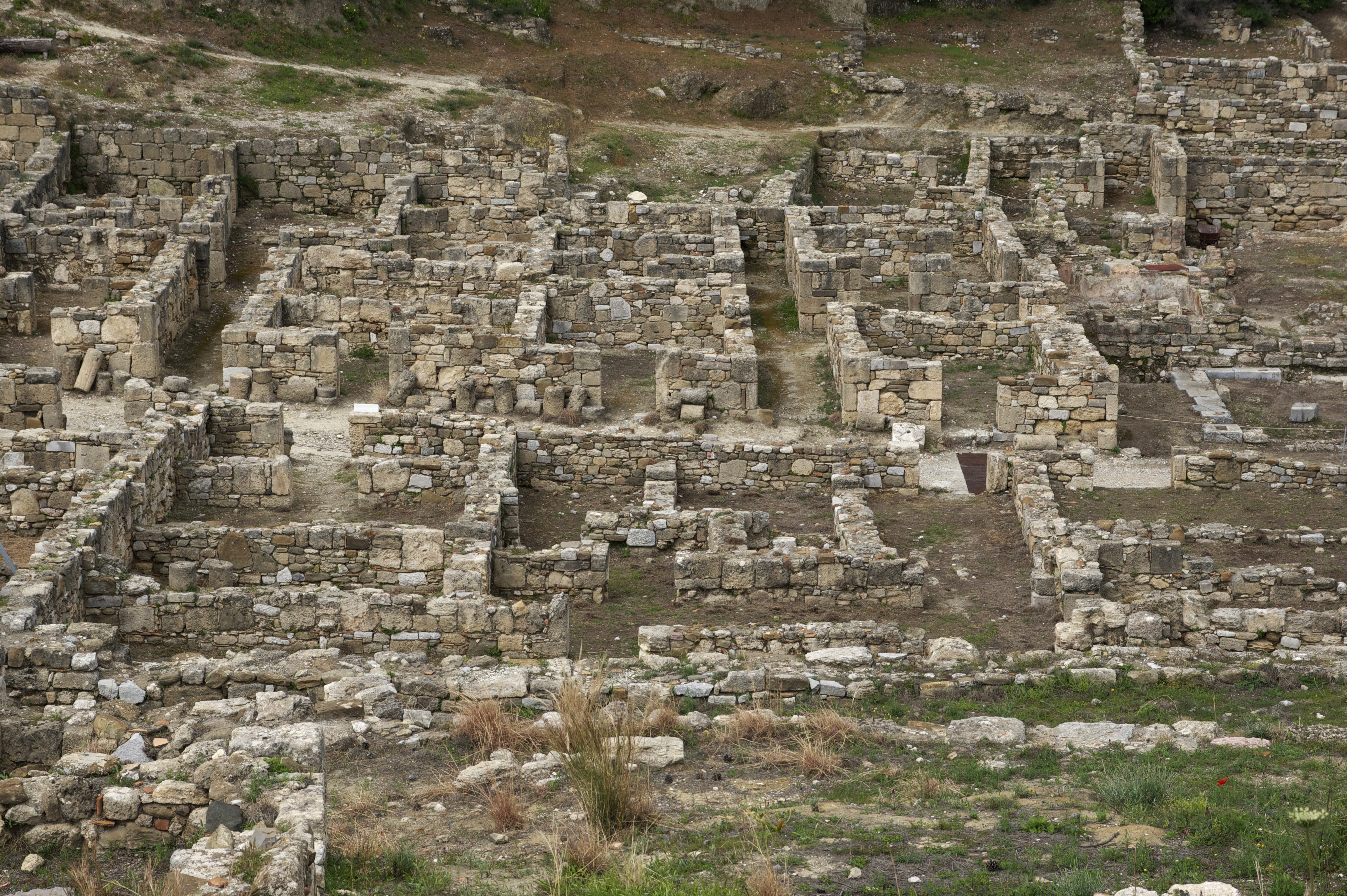 Detail of the ruins of the ancient city of Kameiros, island of Rhodes, Greece. Main street visible horizontally.